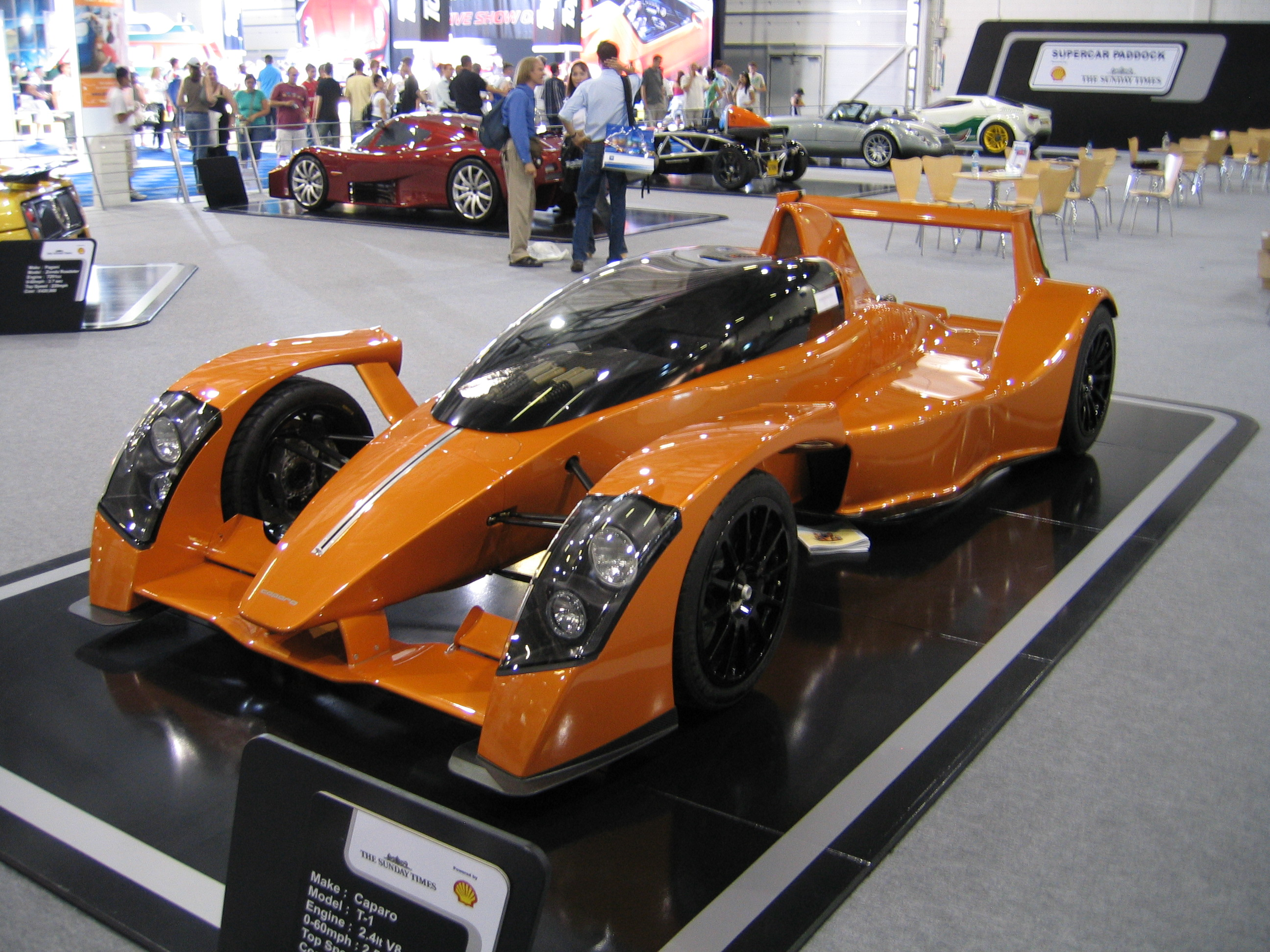 An orange Caparo T1 on display at the 2006 British Motorshow 2006